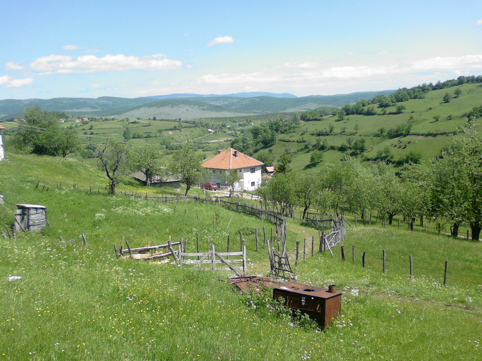 Cukote u leto 2007